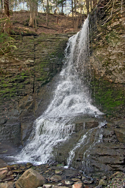 Paul Malo photograph